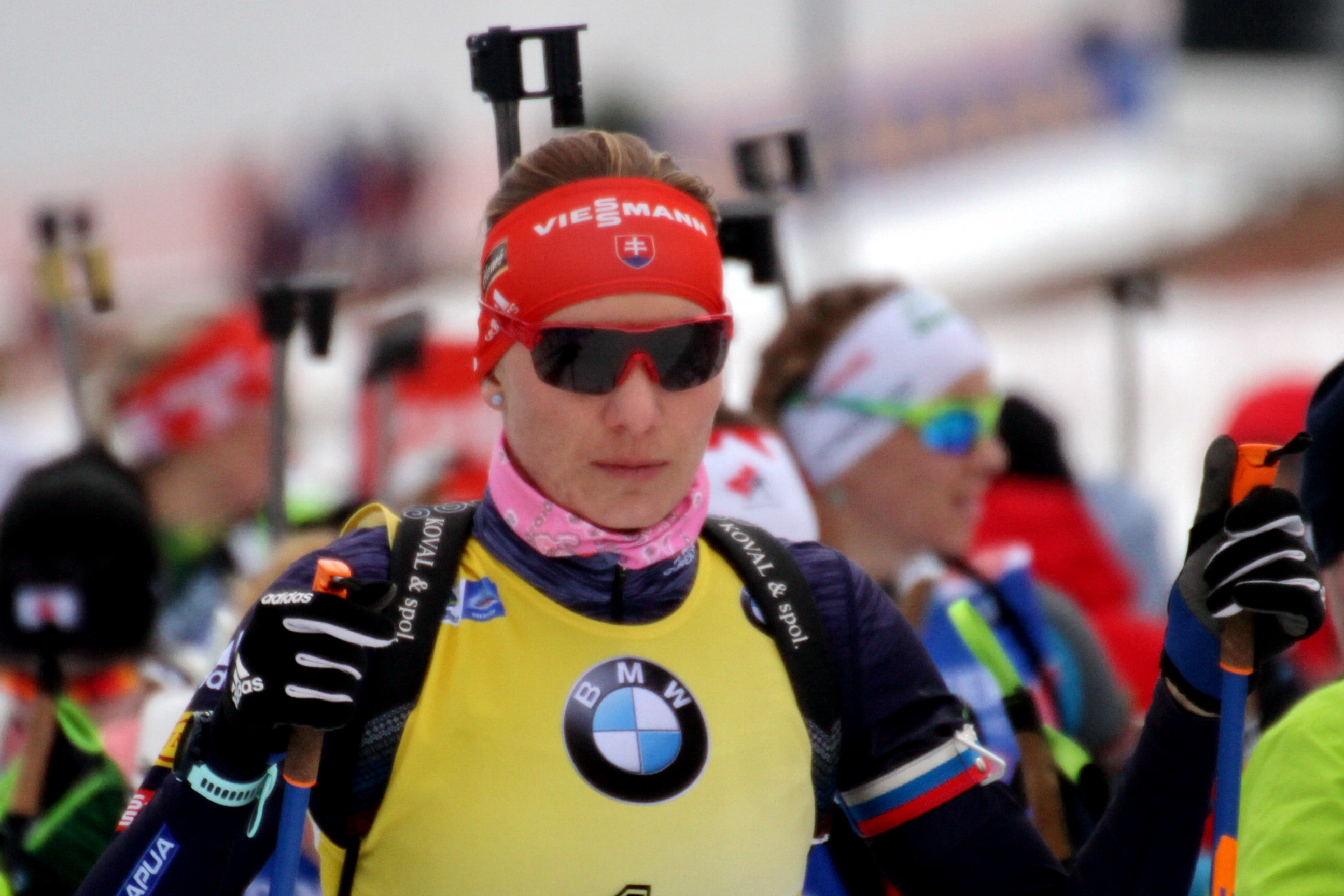 2018 Oberhof Biathlon World Cup - Pursuit Women